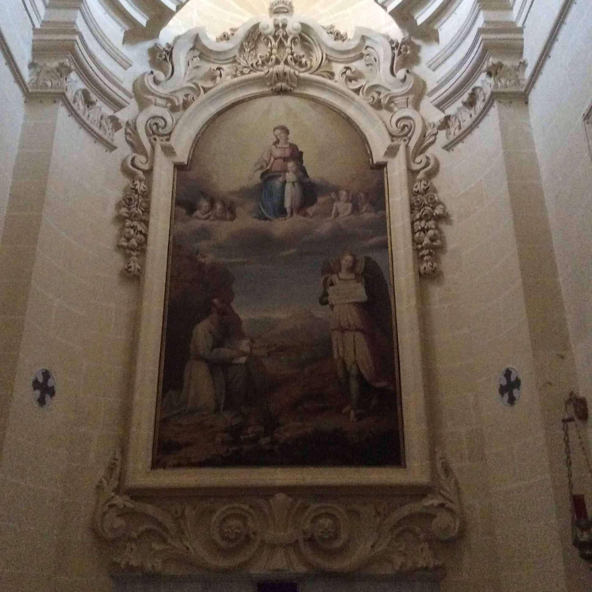 Manresa Retreat House and Church of Our Lady of Manresa This media is about Maltese cultural property with inventory number 00928.